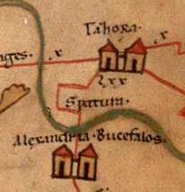 Bucefala and Spartura (Pakistan) in the 4th century as shown on the Peutinger Map